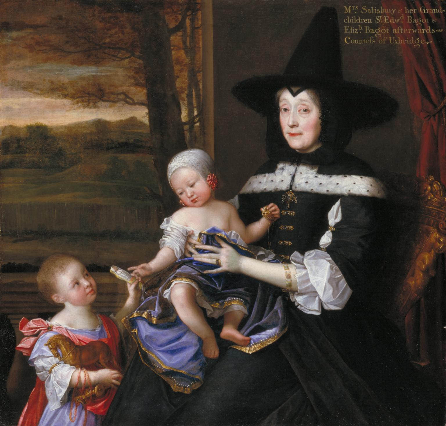 Portrait of Mrs Salesbury with her Grandchildren Edward and Elizabeth Bagot Oil on canvas